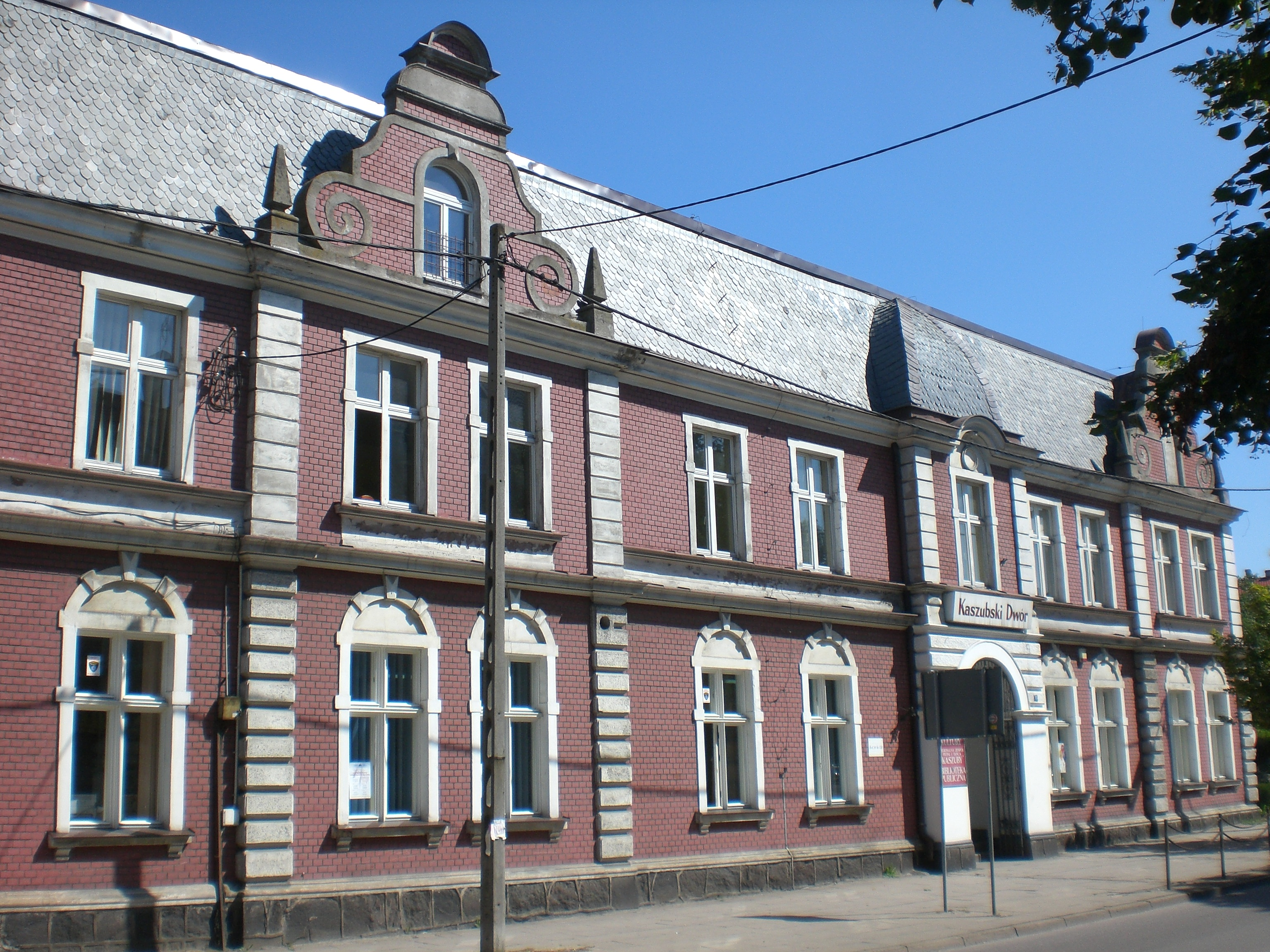 Kartuzy "Cashubian Manor"